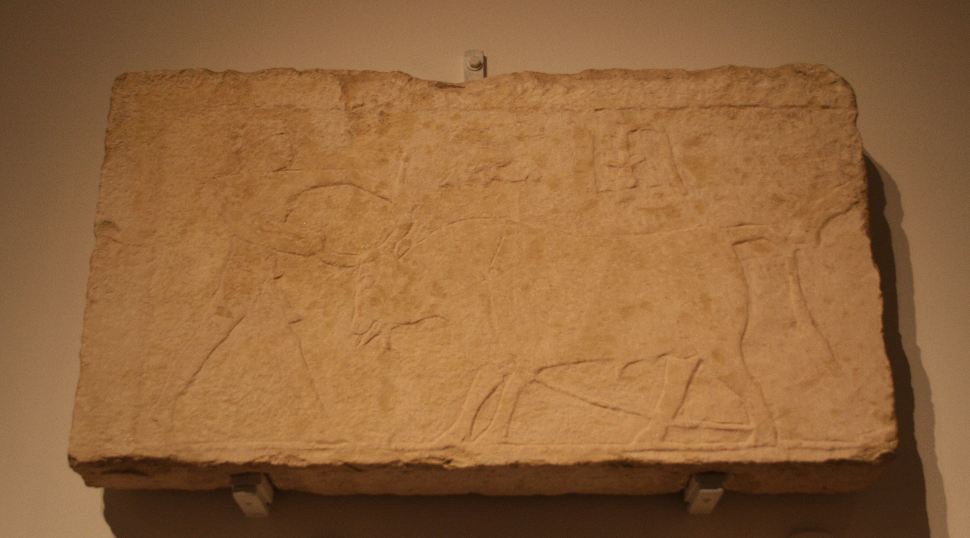 Roemer- und Pelizaeus-Museum, Hildesheim